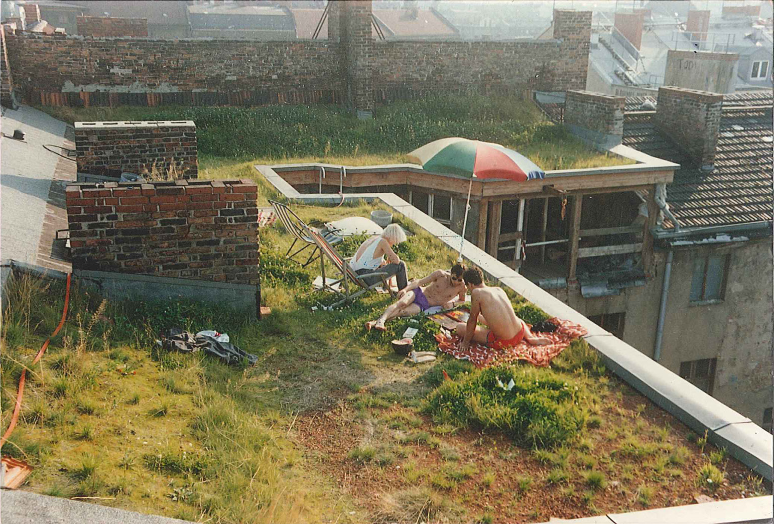 Green roof in block 103 in Berlin-Kreuzberg